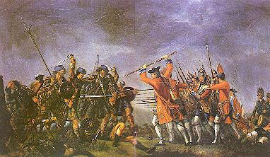 Battle of Culloden, Jacobite rising, 1745-1746.